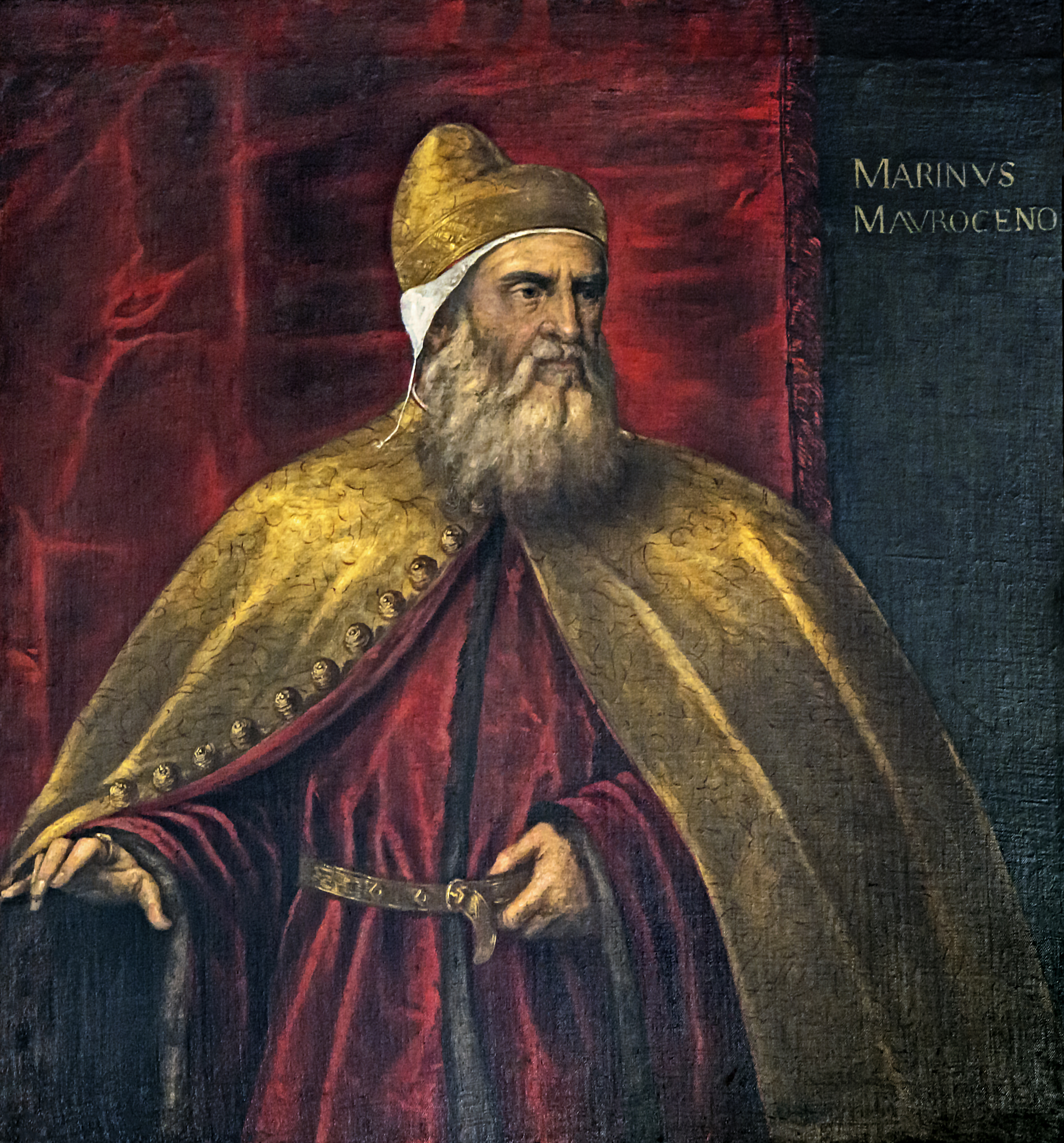 Santa Maria Gloriosa dei Frari, Chapter Room - Doge Marino Morosini by Palma il Giovane. Oil on canvas.